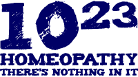 English 10:23 Campaign logo.